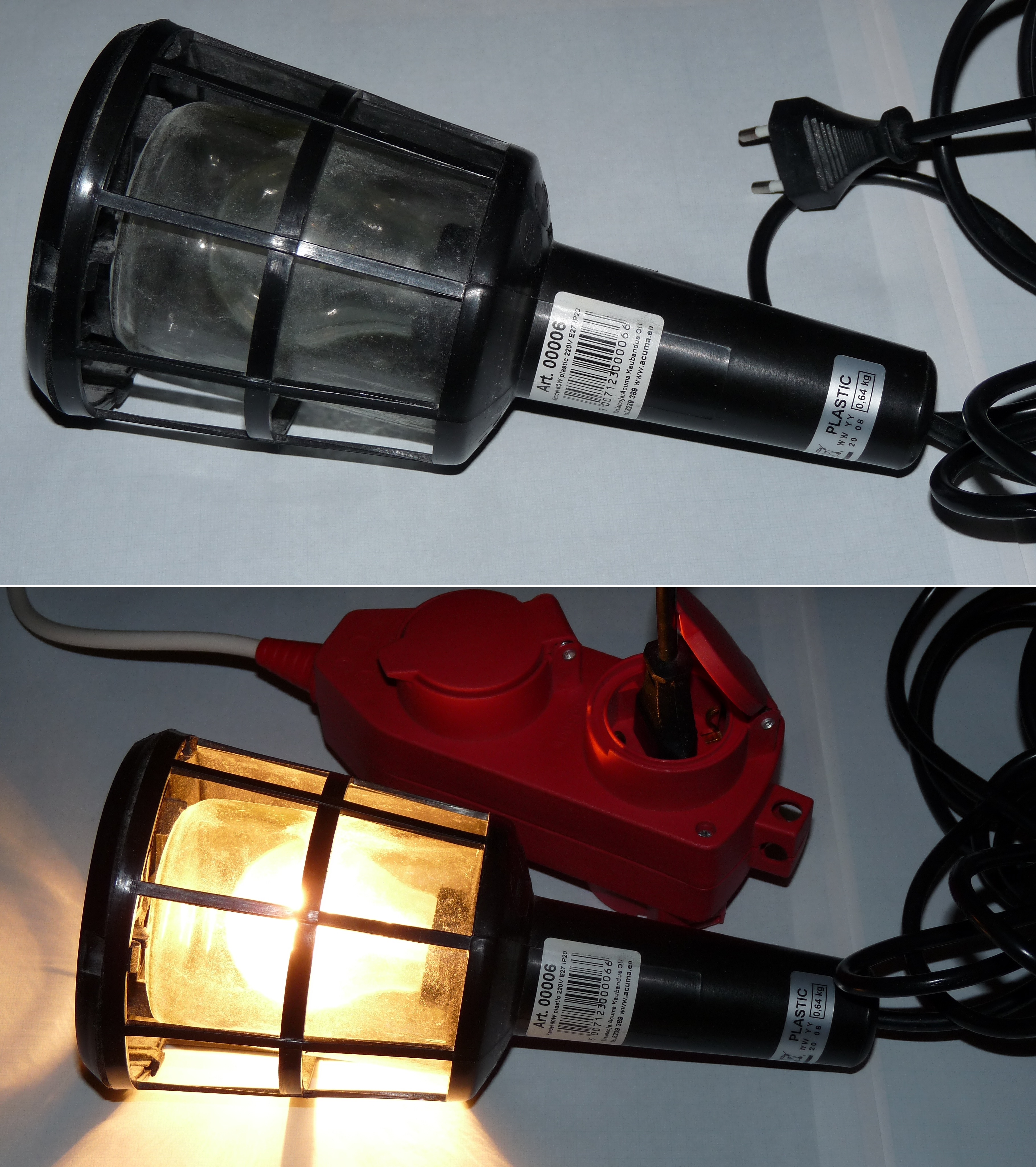 Portable lamp, used in building.